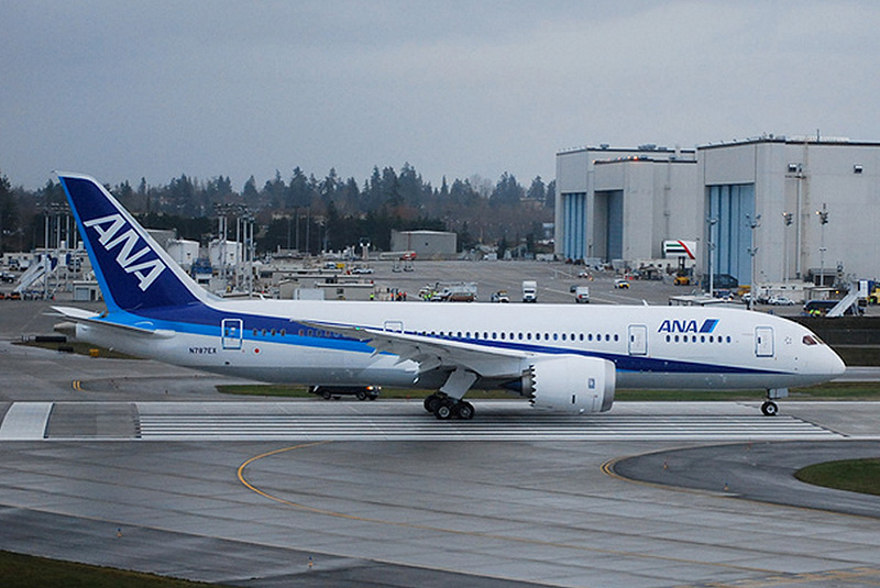 DSC_8034 Second Dreamliner built for ANA